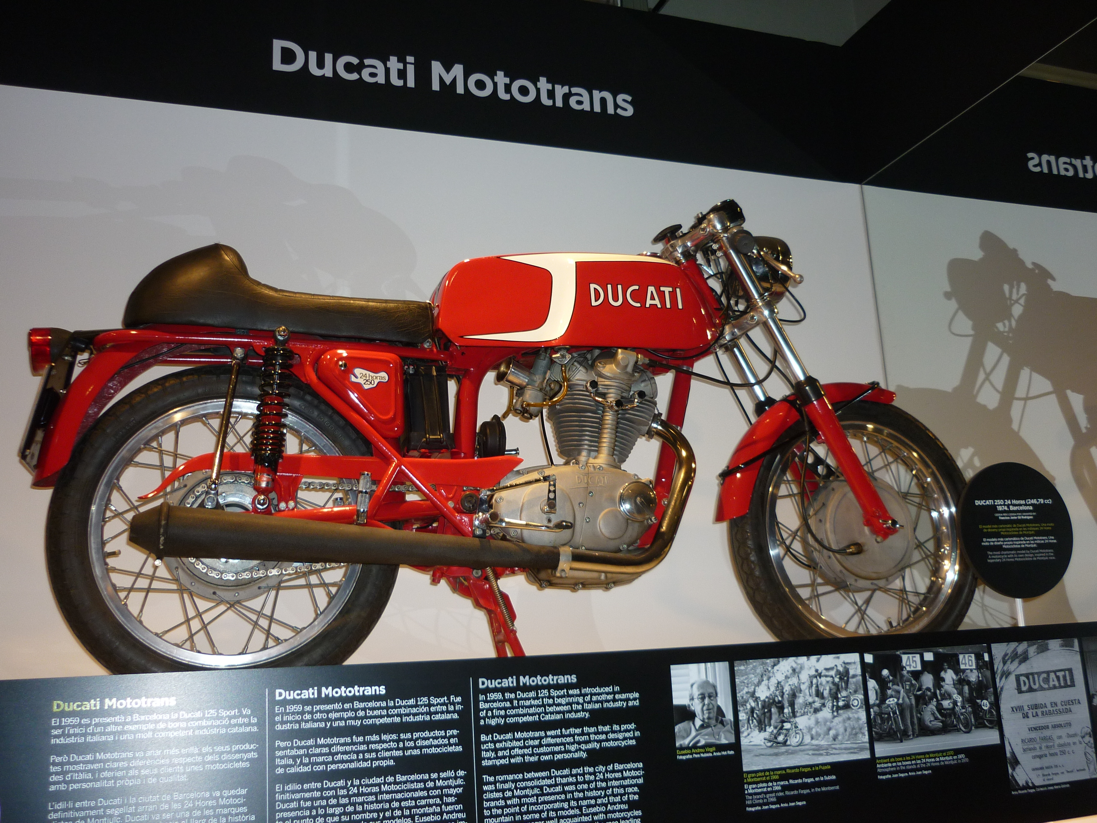 Ducati Mototrans 250 24 Horas (246,79 cc), 1974